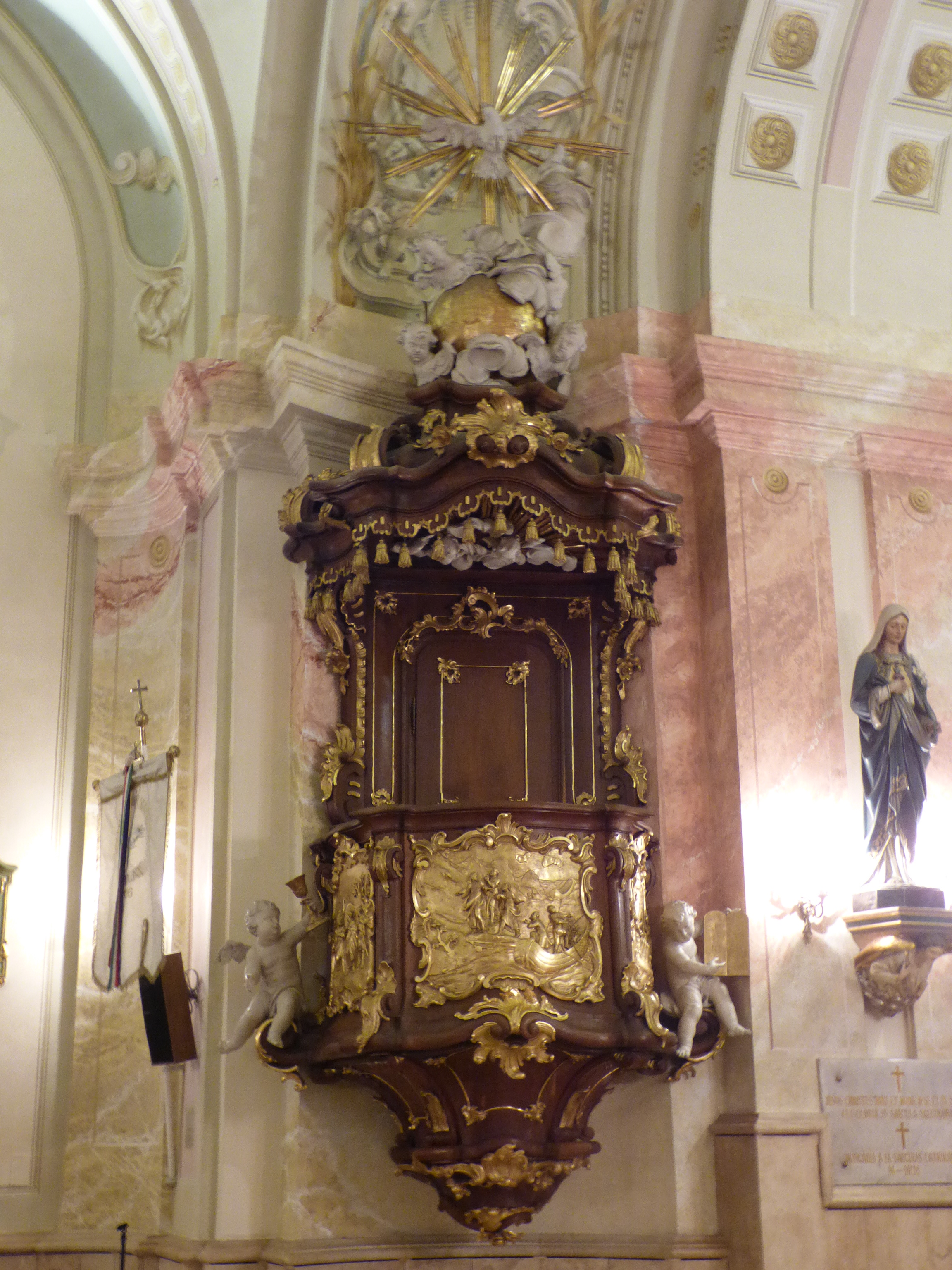 A solymári templom barokk szószéke, Bebo Károly alkotása (wikipedia)